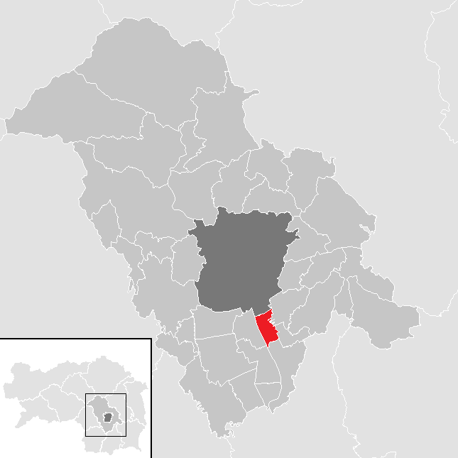 District Graz-Umgebung, Styria